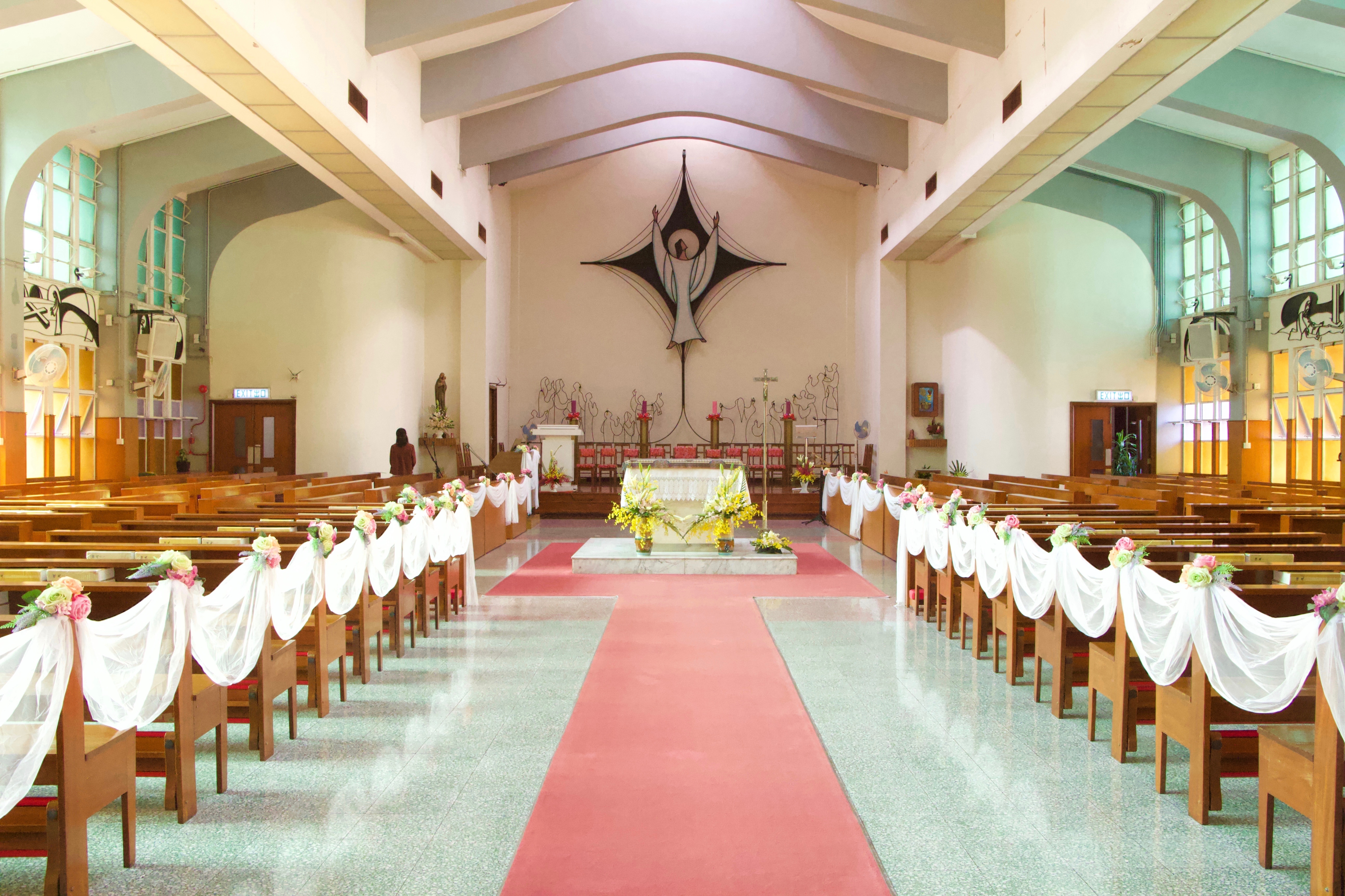 The inside of Hong Kong St. Alfred's Church View. 中文（香港）: 香港聖歐爾發堂的內部景觀